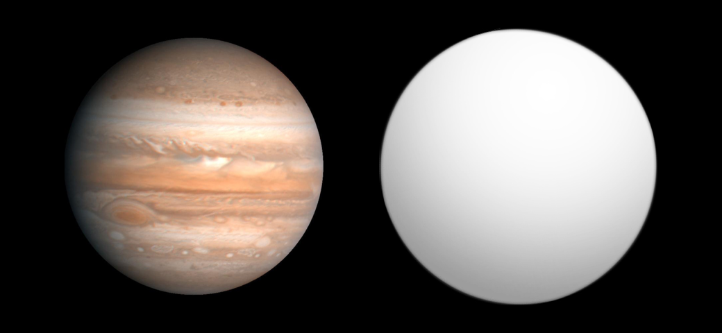 Comparison of best-fit size of the exoplanet WASP-21 b with the Solar System planet Jupiter, as reported in the Open Exoplanet Catalogue[1] as of 2010-09-30. ↑ Open Exoplanet Catalogue (2010-09-30). Retrieved on 2010-09-30.